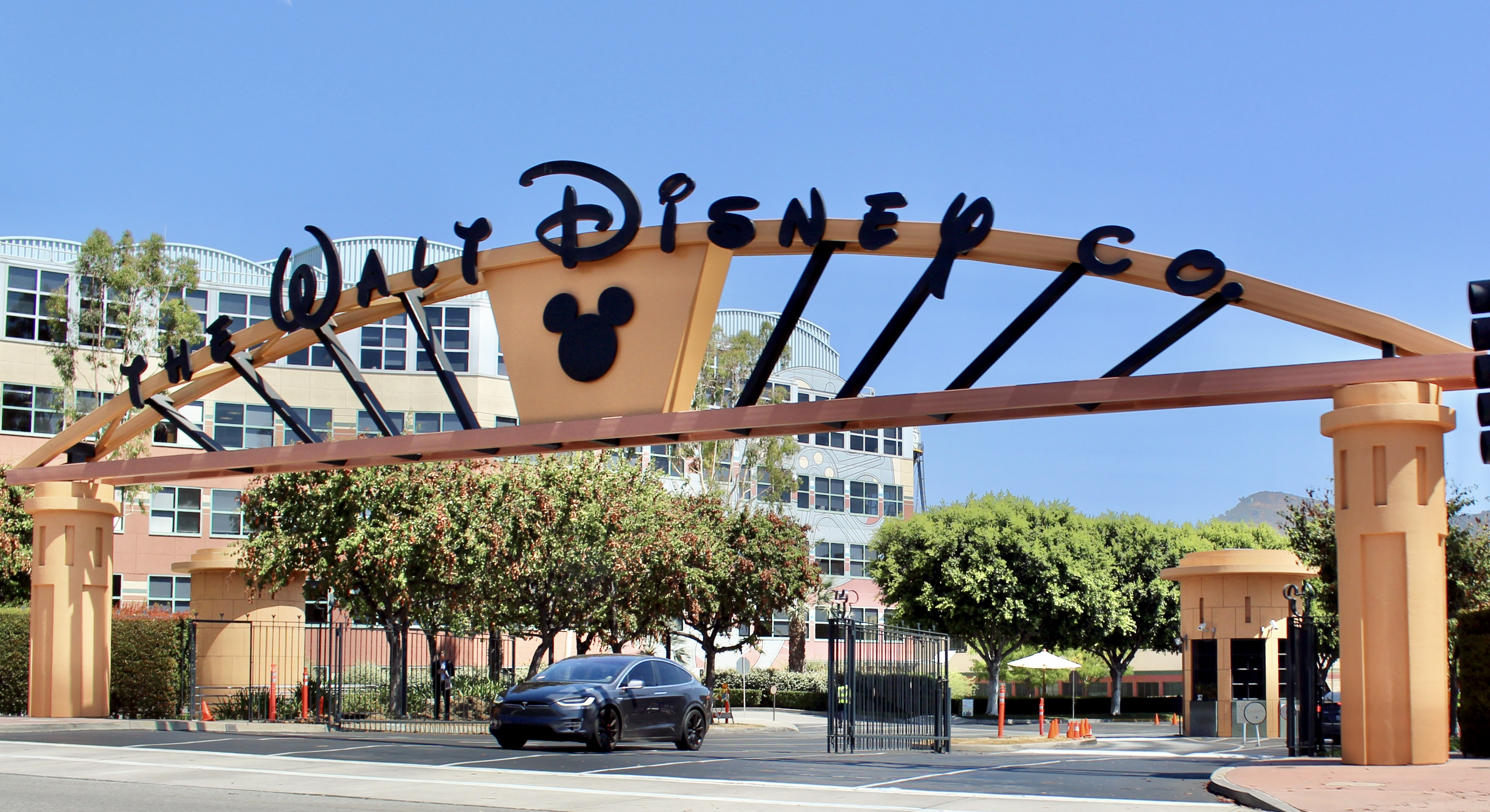 The Alameda Avenue entrance to the Walt Disney Studios in Burbank, California. This was taken just after a major renovation in summer 2016, in which the dated tropical pastels of the gateway arch were replaced with a more conservative orange-and-black color scheme and Mickey Mouse was added to the arch. Photographed on July 11, 2016 by user Coolcaesar.